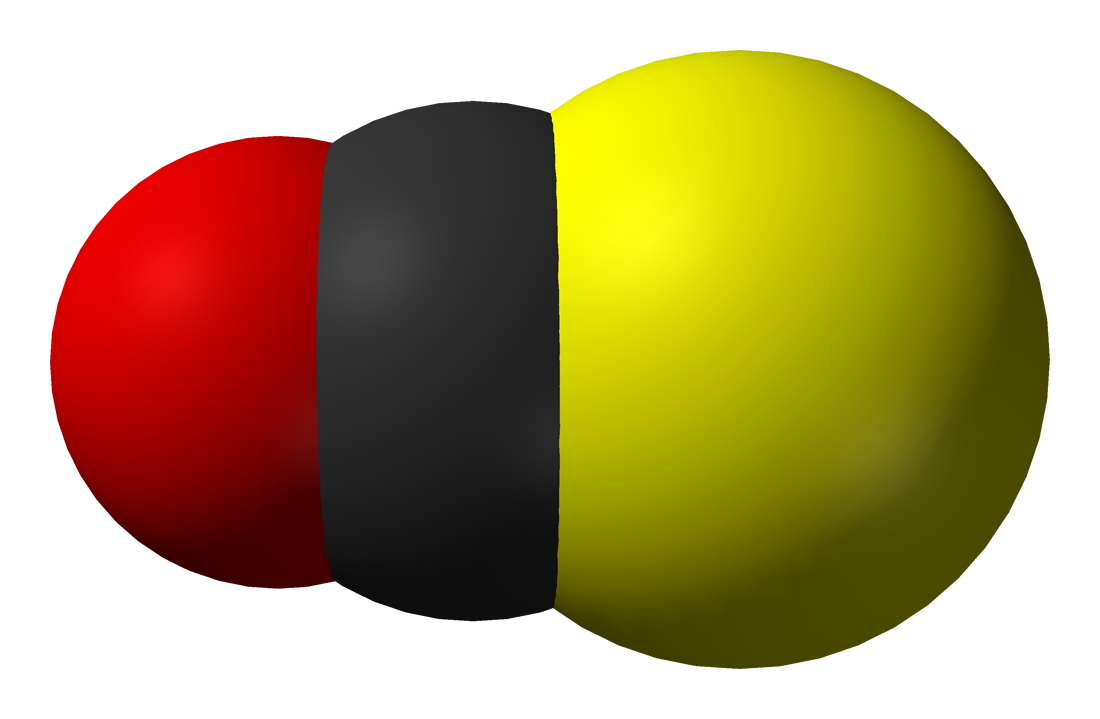 Ball-and-stick model of the carbon disulfide molecule, OCS. C=S bond length of 1.5601 Å; C=O bond length of 1.1578 Å. Data from CRC Handbook of Chemistry and Physics, 88th edition.